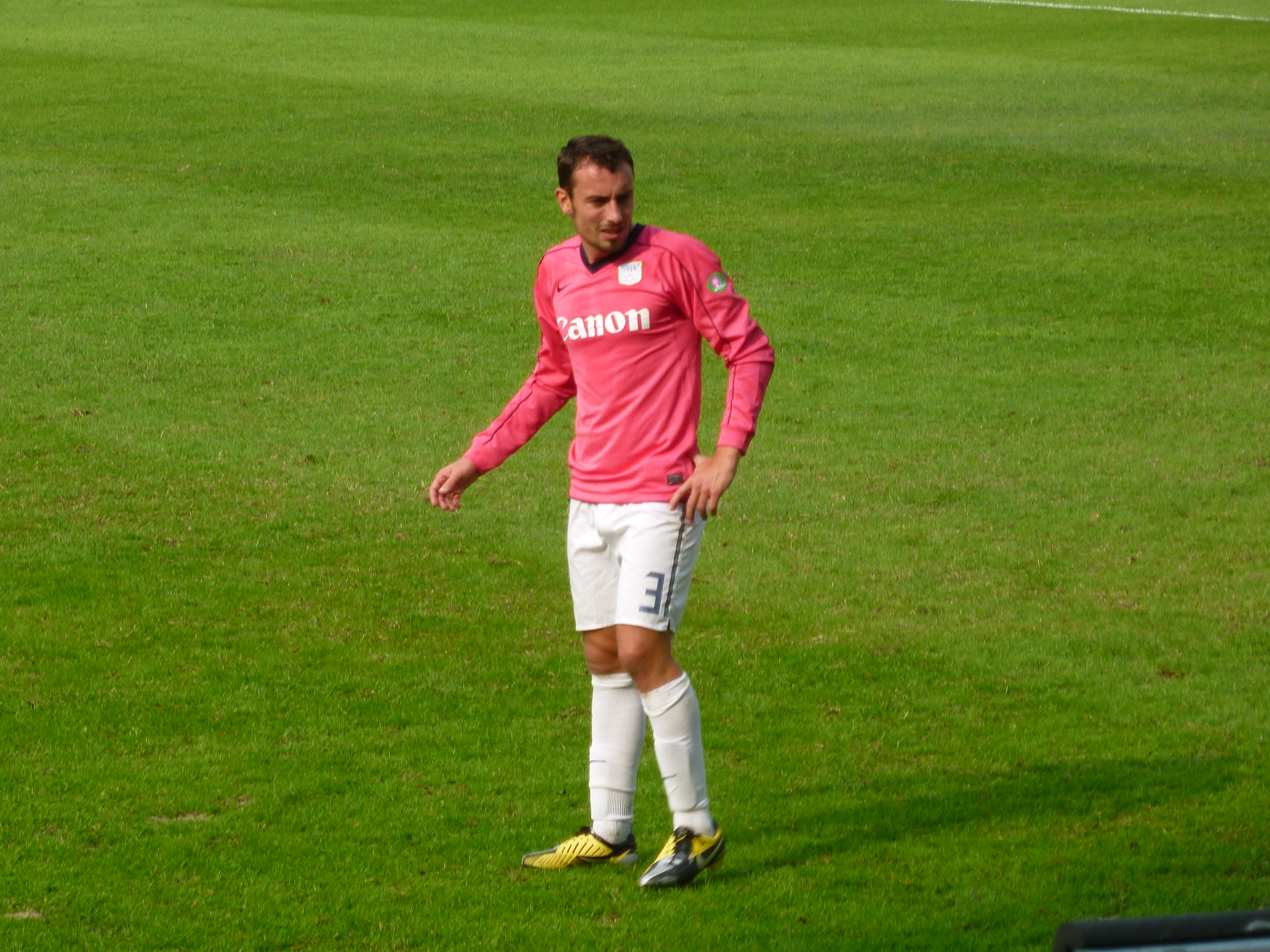 Daniel Cancela Rodríguez (8 Jan 2012 Hong Kong First Division League, Rangers vs Kitchee, Mong Kok Stadium)